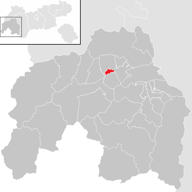 District Landeck